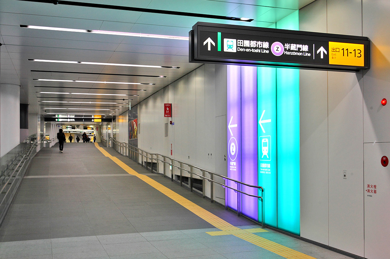 A transfer passage of Tokyo Metro Fukutoshin Line Shibuya StationEmerald Green : Tōkyū Den-en-toshi LinePurple : Tokyo Metro Hanzōmon Line